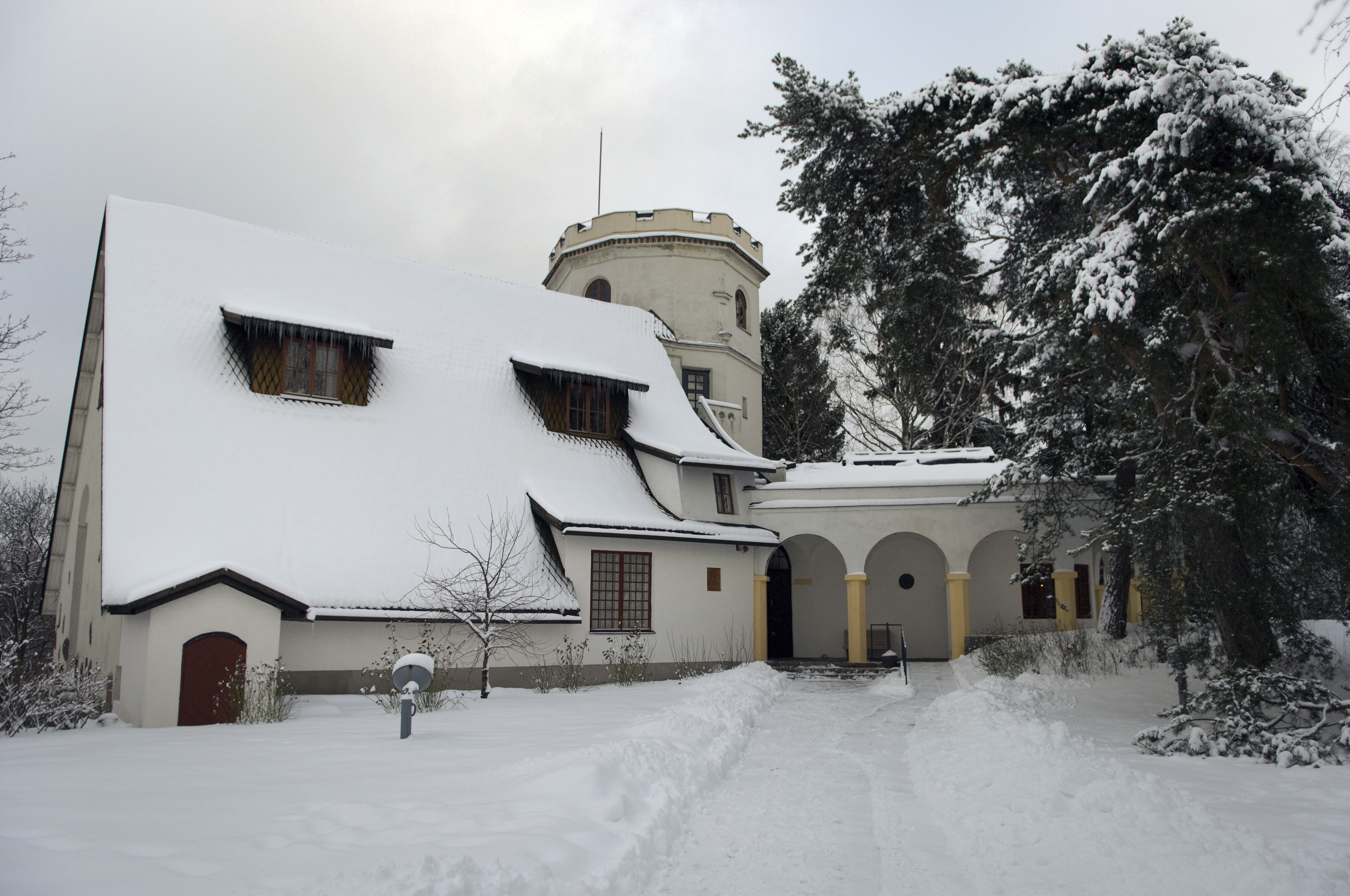 The Gallen-Kallela Museum in Tarvaspää, Espoo, Finland.